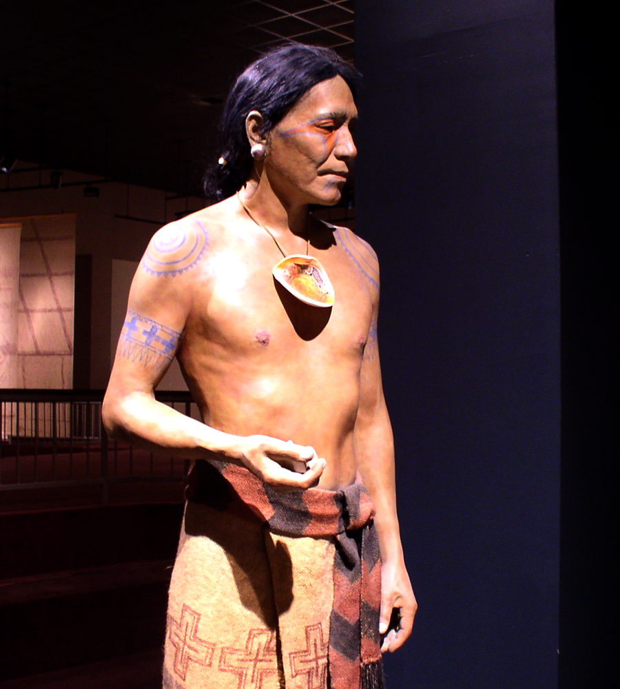 A diorama showing a Mississippian culture elite personage from the Cahokia site in Collinsville, Illinois. The figure wears a cloth skirt and sash, a engraved shell gorget, ear spools and a falcon eye design painted on his face.